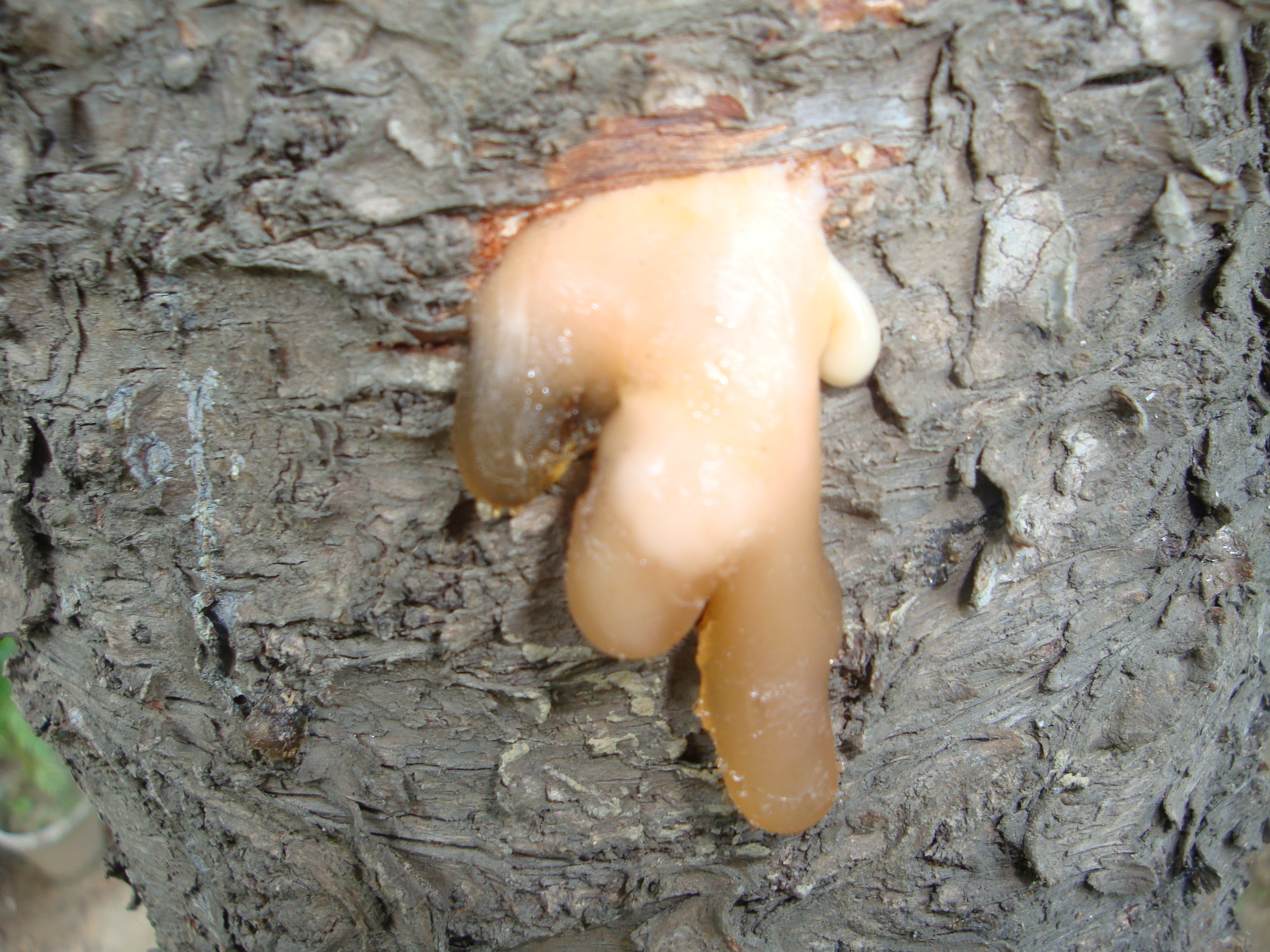 Resin extruding from trunk of mature Araucaria Columnaris at Hooghly near Bandel in West Bengal, India.